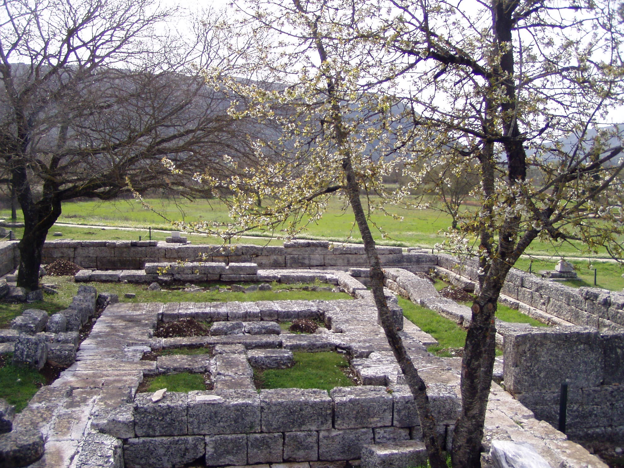 This is the Temple of Zeus in Dodona.